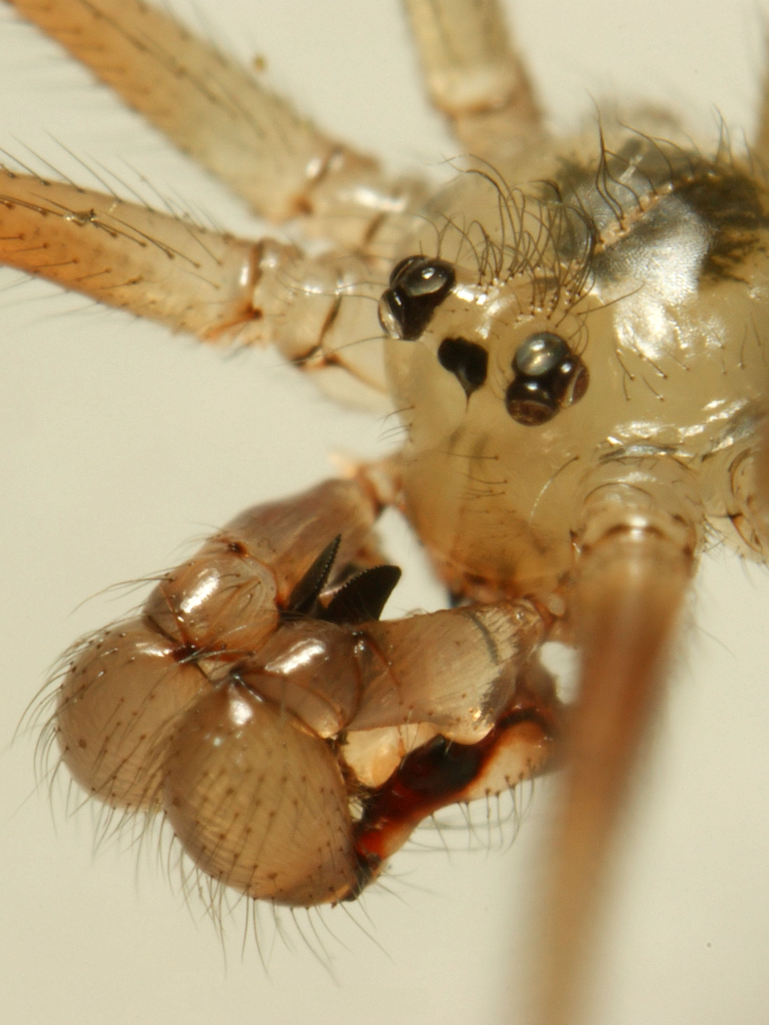 Portrait of a House spider, or Vibrating spider that visited my bathroom. This shot was done with a 19mm-lens, that was retro attached to 65mm extension tubes.